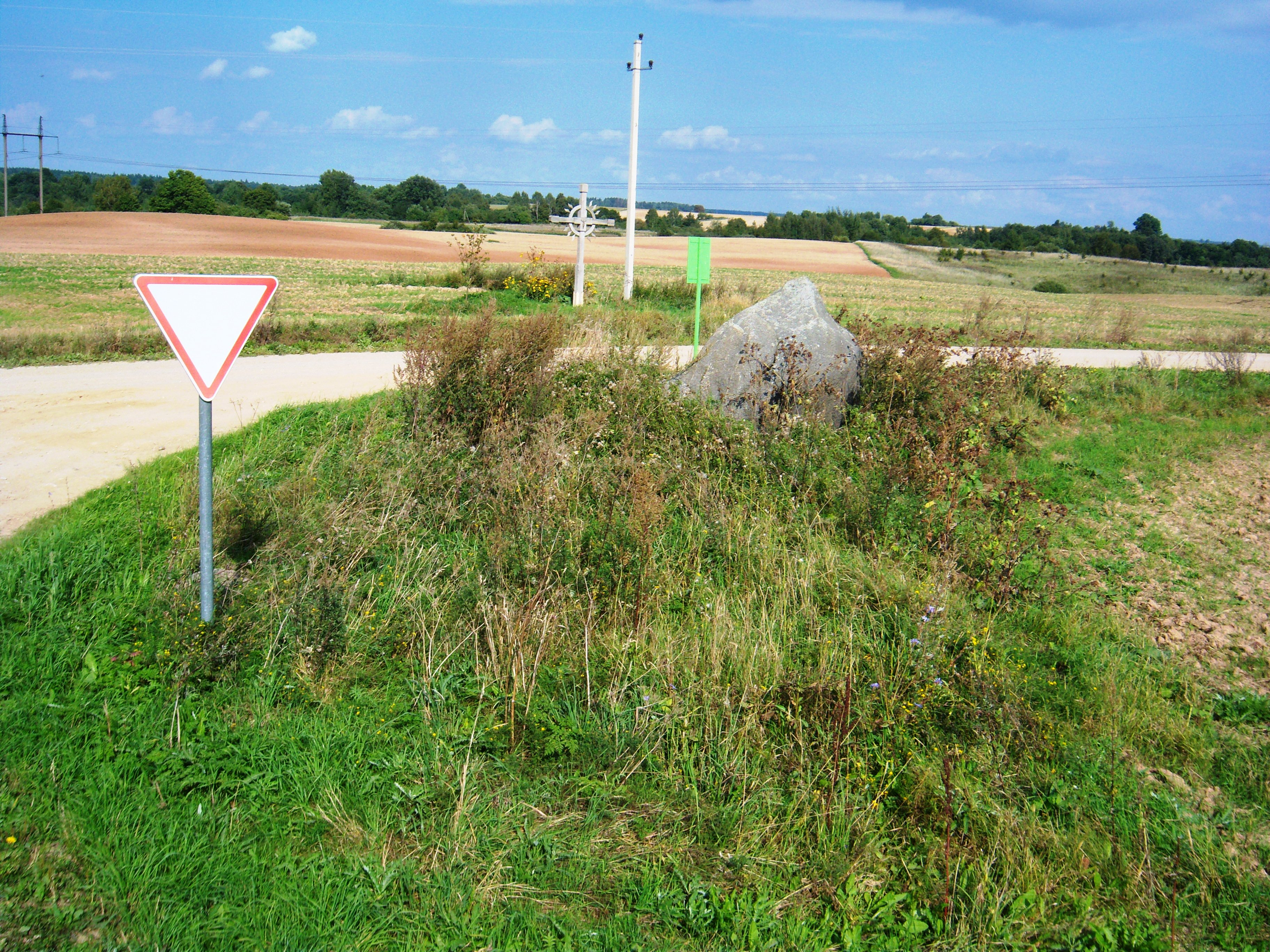 Totoriškės, Kaišiadorys District, Lithuania